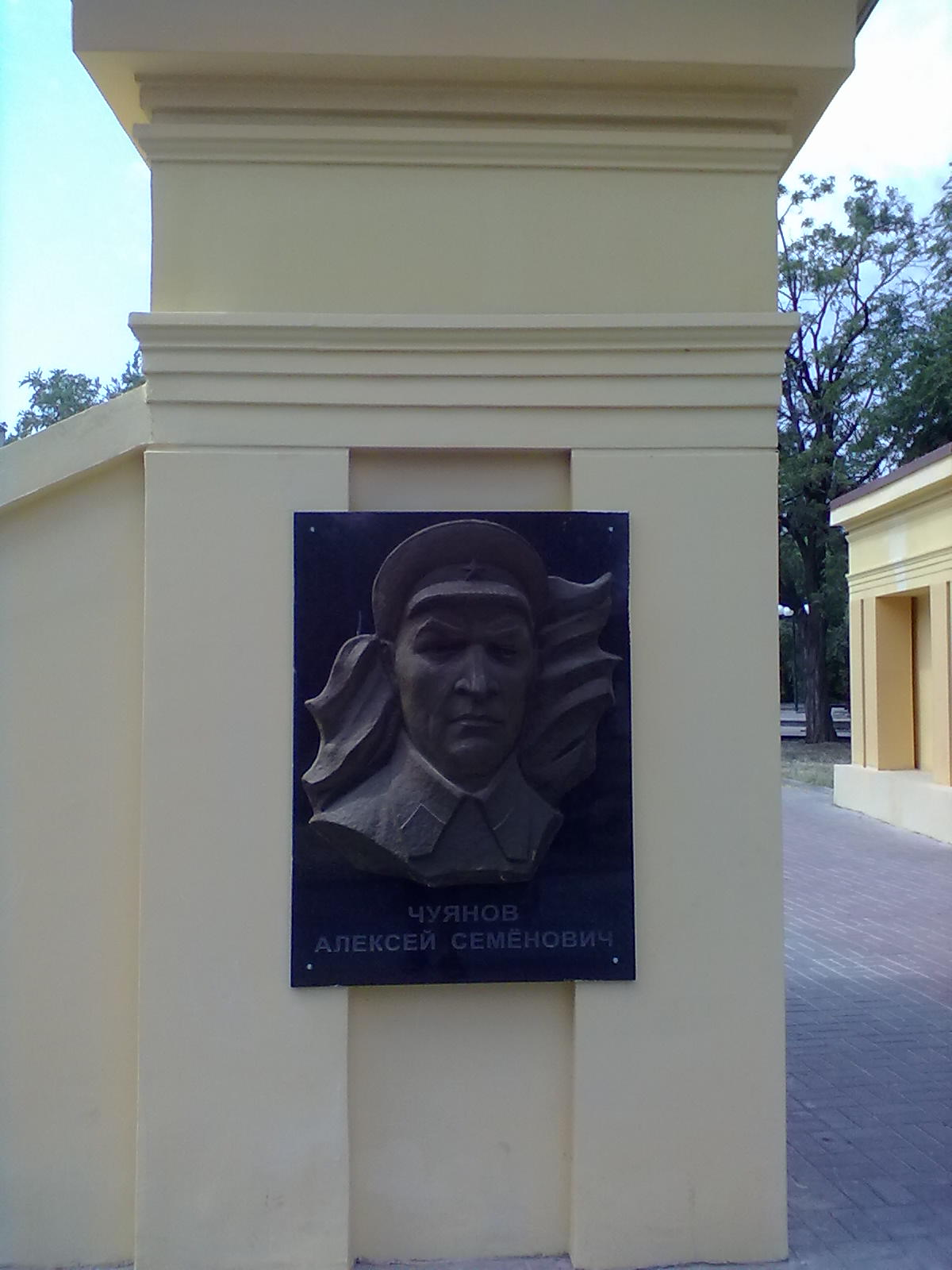 Bunker Municipal Committee of Defense of Stalingrad.